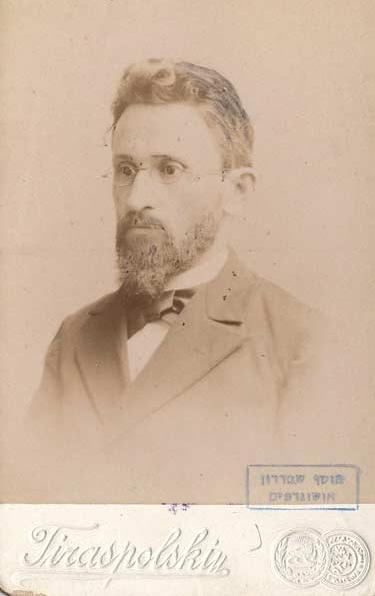 young Simon Dubnow